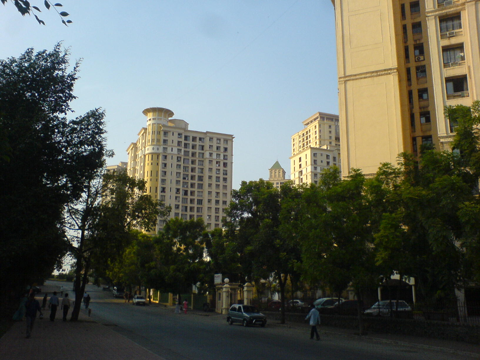 Avon